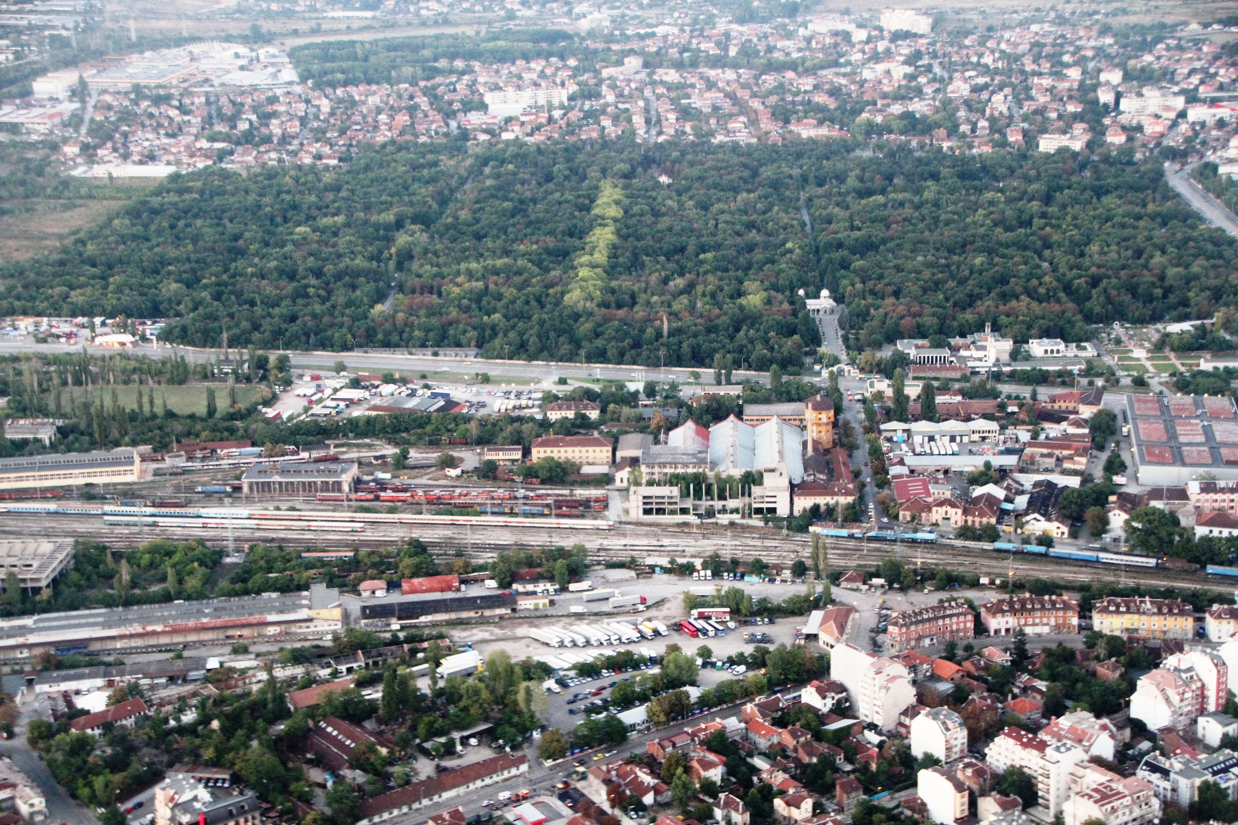 Aerial view over the neighbourhoods of Serika (left) and Orlandovitsi (background). Northern part of Sofia, Bulgaria. The large park is the Central cemetary of Sofia.